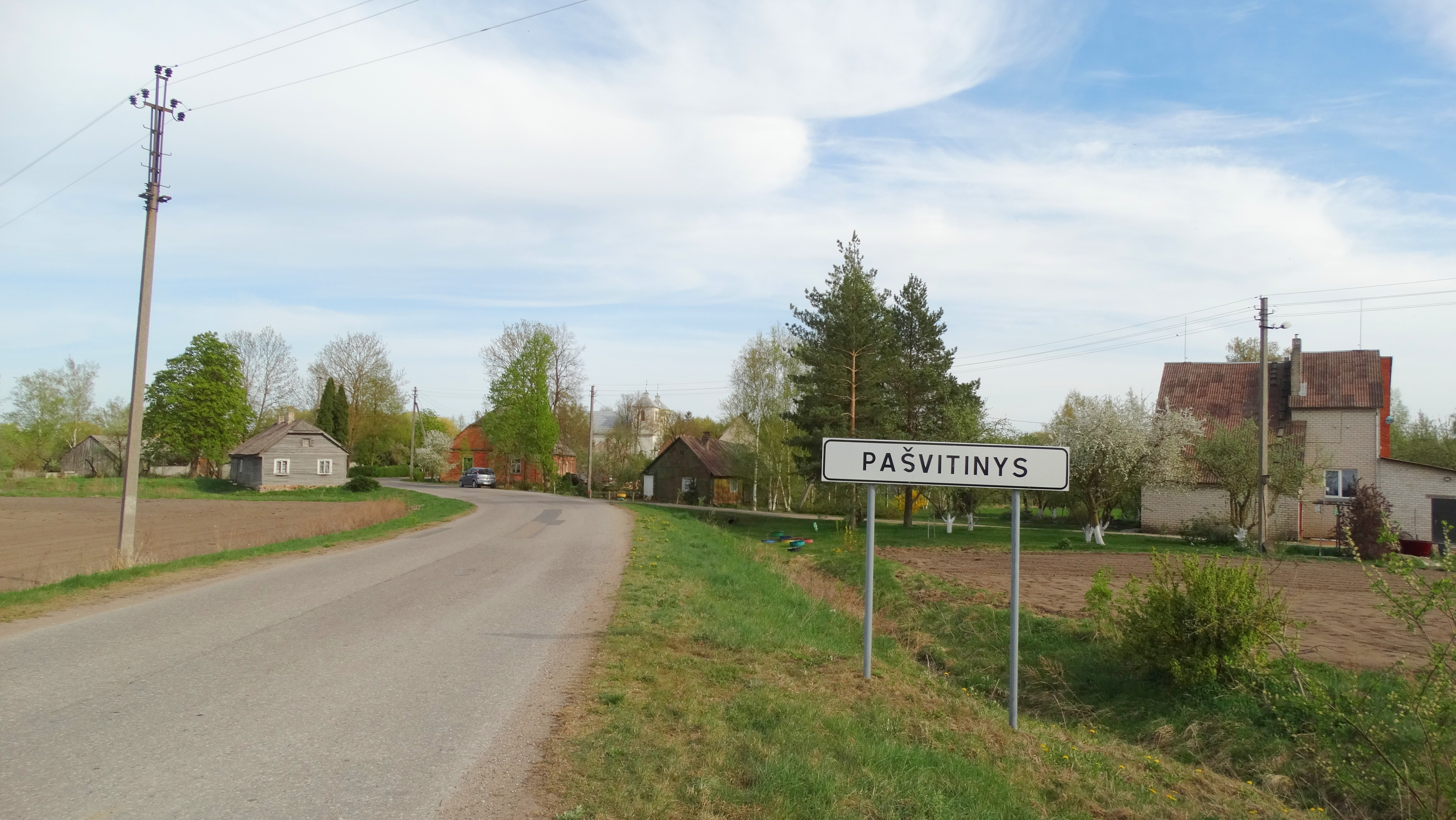 Pašvitinys, Pakruojis District, Lithuania